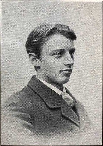 Niels Vinding Dorph (1862-1931), Danish painter